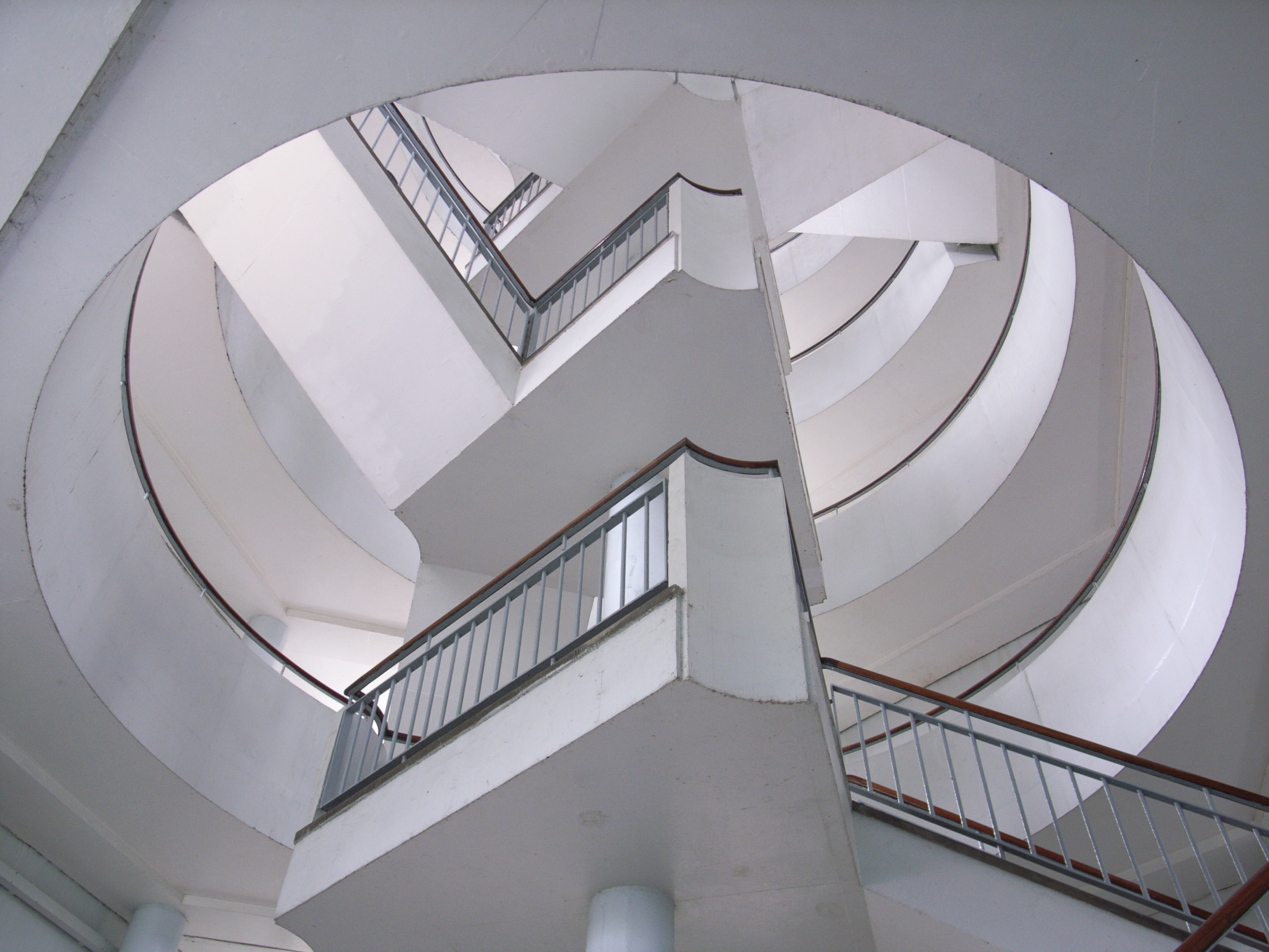 Bevin Court (1946-54) by Berthold Lubetkin and Tecton Photo taken on a tour of the City Fringes with the 20th Century Society on 28/02/09.